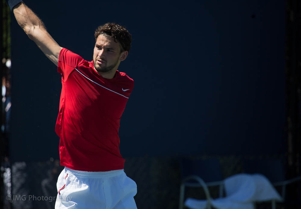 Grigor Dimitrov at the 2012 US Open